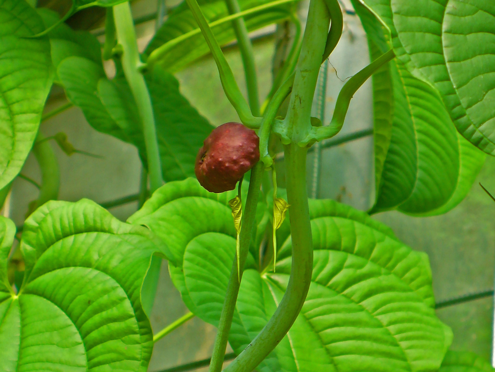 Dioscorea esculenta, Dioscoreaceae, Lesser Yam, Asiatic Yam, bulbil; Botanical Garden KIT, Karlsruhe, Germany.